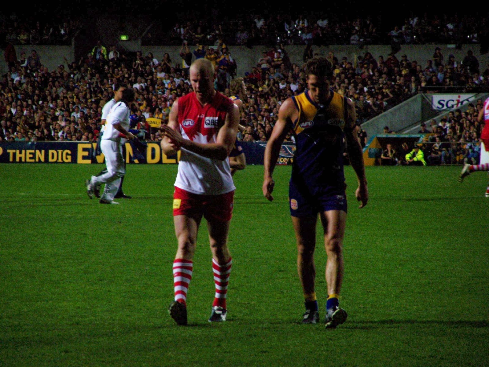 Barry Hall and an opponent from rivals West Coast